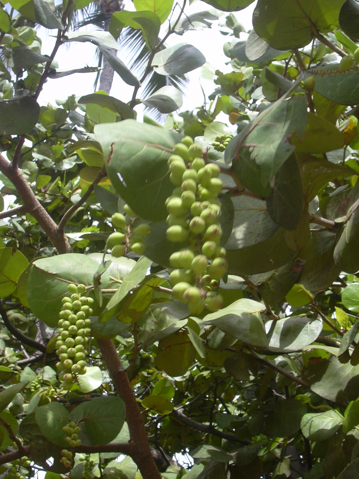 Coccoloba uvifera (fruit). Location: Maui, Kahului